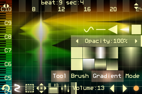 Software simulator of the unique Russian synthesizer ANS - photoelectronic microtonal/spectral musical instrument created by Russian engineer Evgeny Murzin from 1938 to 1958.